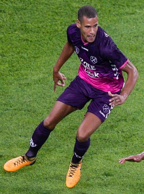 24.08.2017. Россия, Санкт-Петербург, стадион «Санкт-Петербург». Лига Европы УЕФА 2017/18, 4-й квалификационный раунд, «Зенит» — «Утрехт».